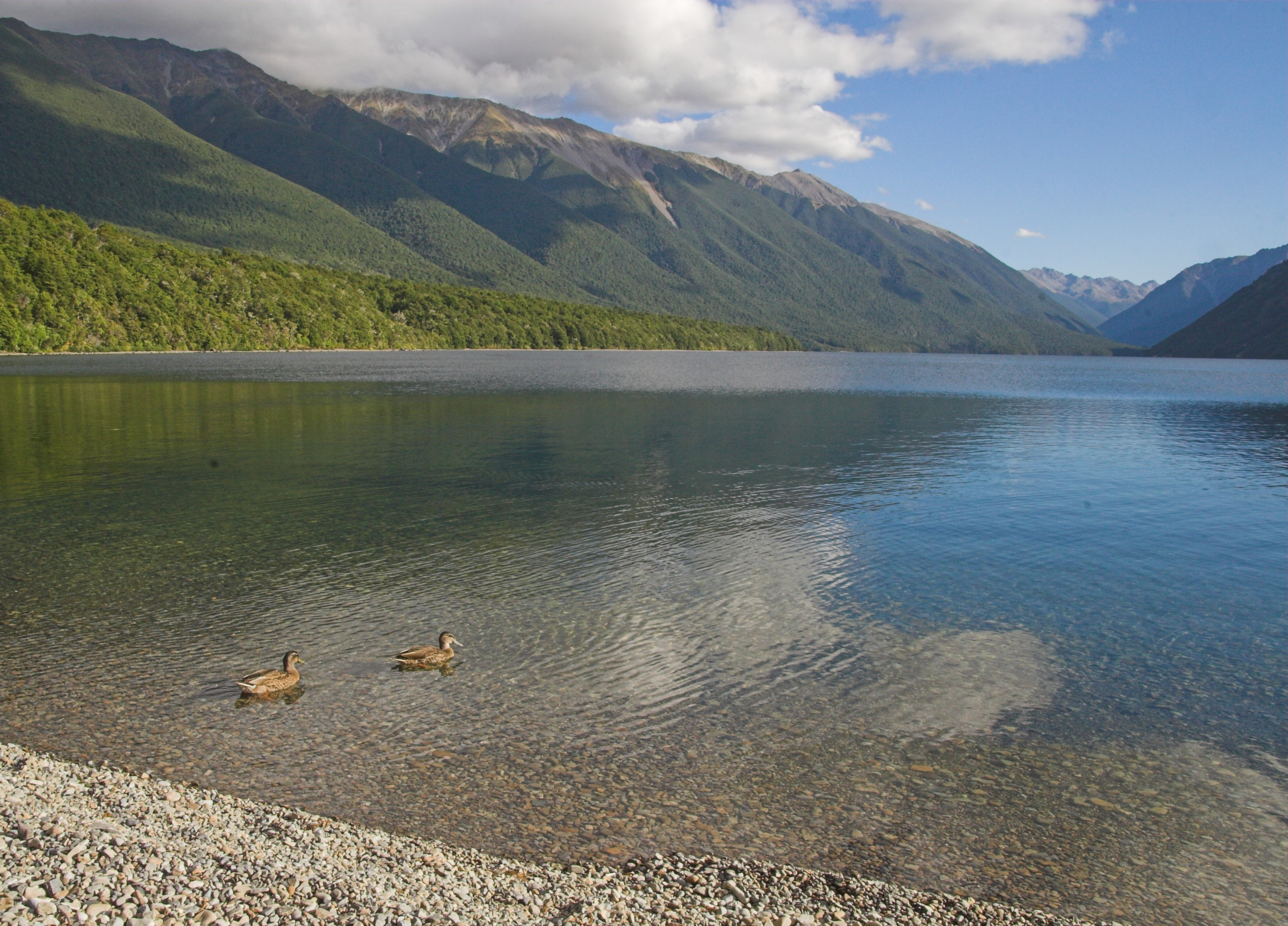 A view of Lake Rotoiti, looking southwards.